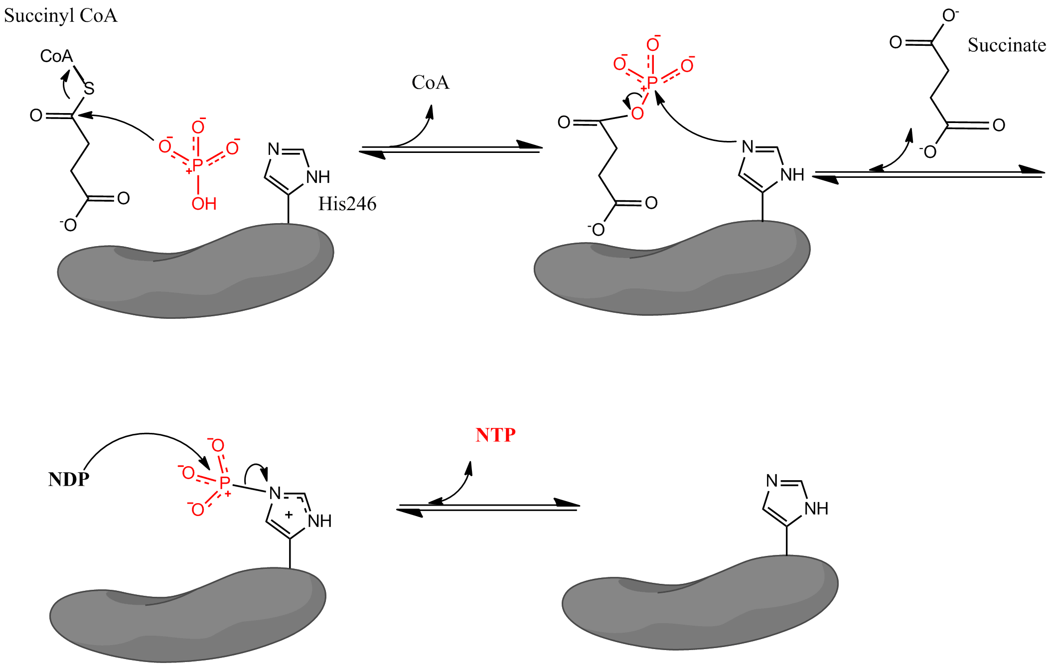 Proposed mechanism for the reaction catalyzed by the Succinyl-CoA Synthetase enzyme